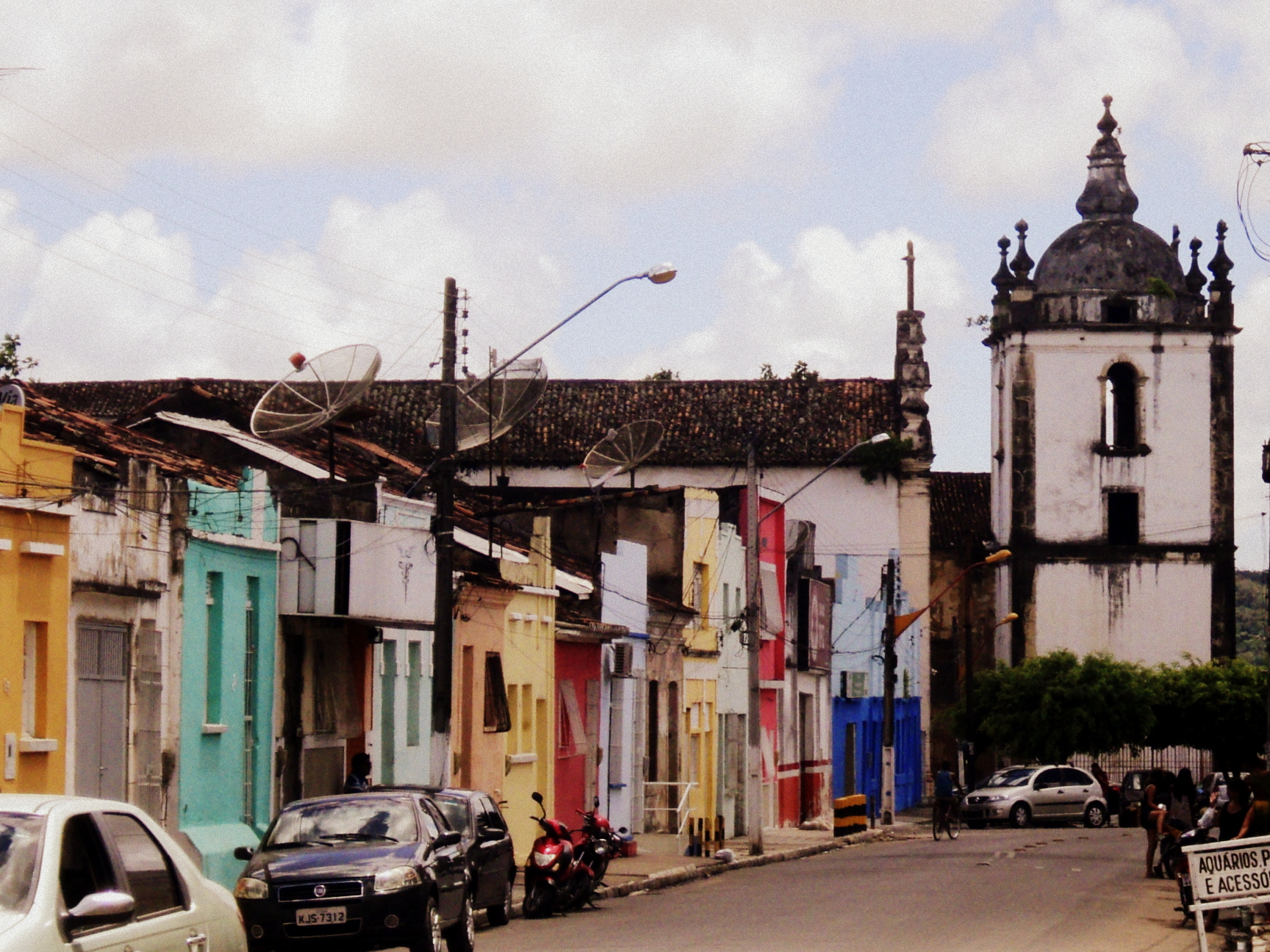 Goiana Downtown